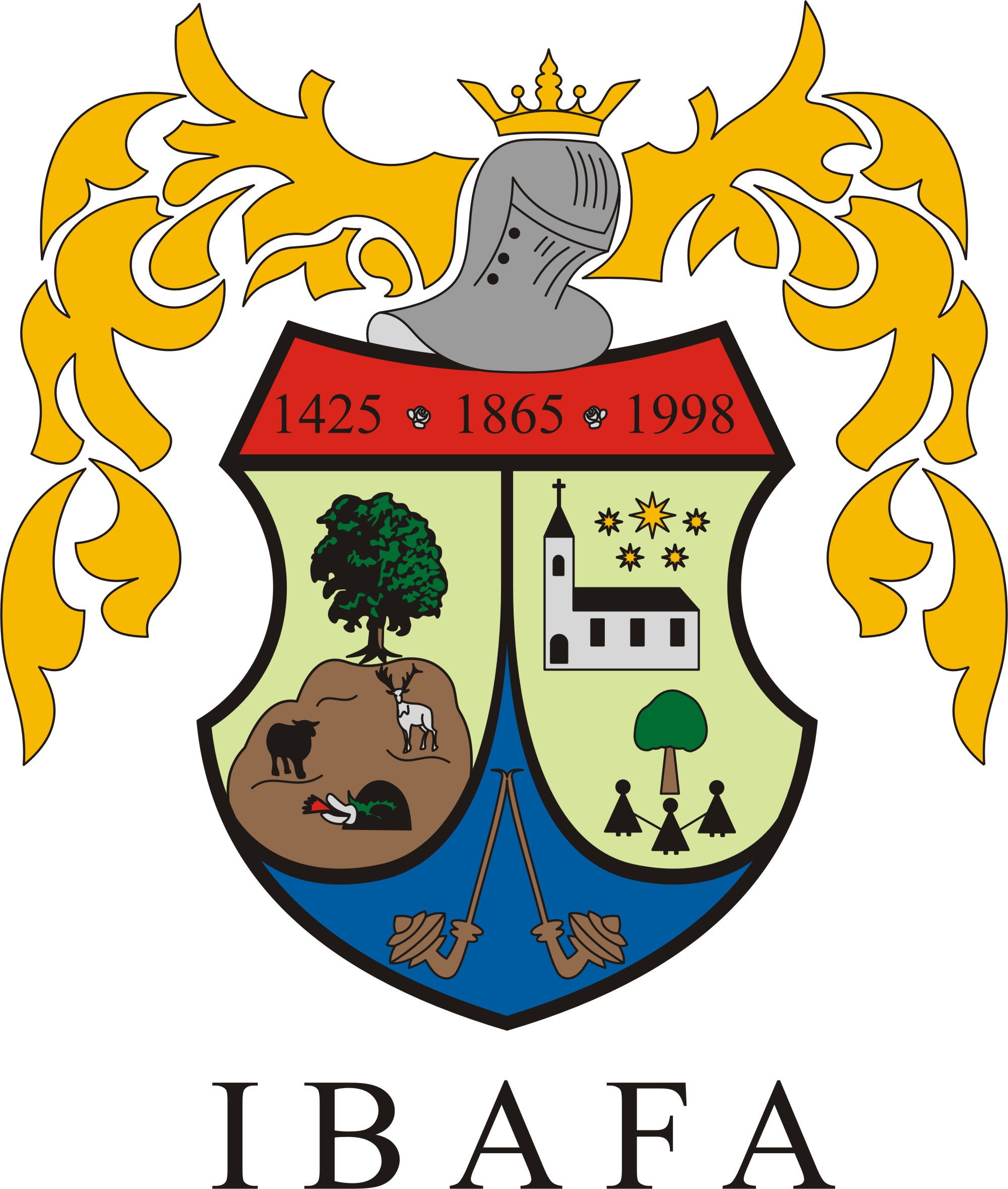 Coat of arms of Ibafa, Hungary